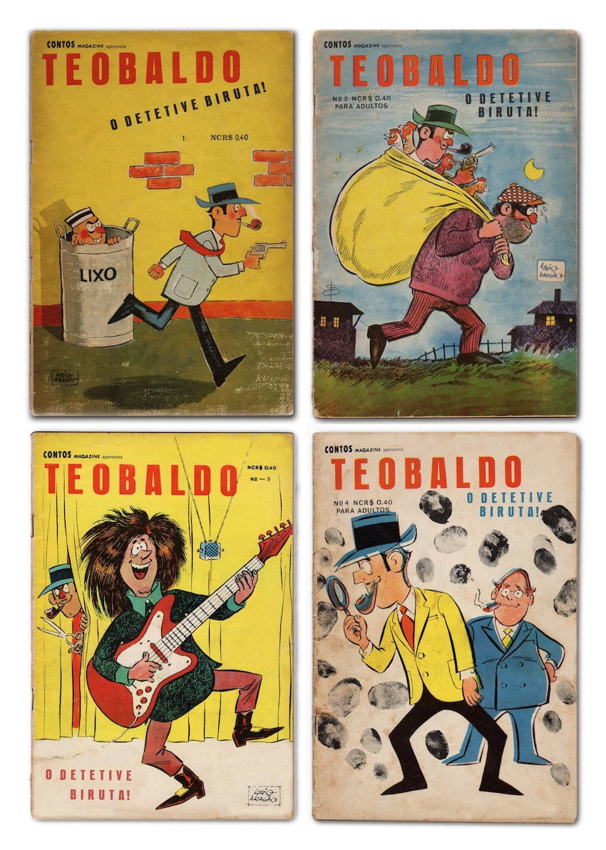 Teobaldo, o detetive biruta - edições da revista Contos Magazine